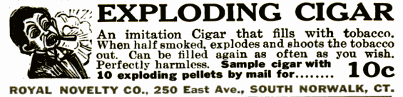 Advertisement for exploding cigar pellets, meant to be inserted into a cigar to purposes of giving the butt of a joke, a butt with a bang